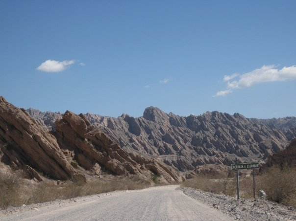 Quebrada de las Flechas (Ravine of Arrows), located just outside Angastaco